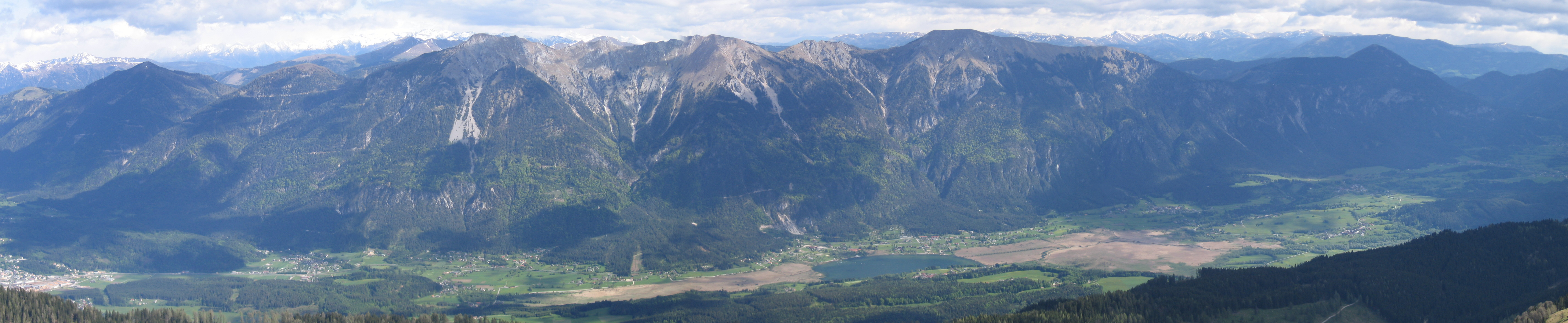 Group of Spitzegel (2119 m) above Gailtal from mt. Poludnik, Austrian Carinthia. Golz (2004 m) on the west, Spitzegel above Pressegger See, Tschekelnock (1892 m) on the east.